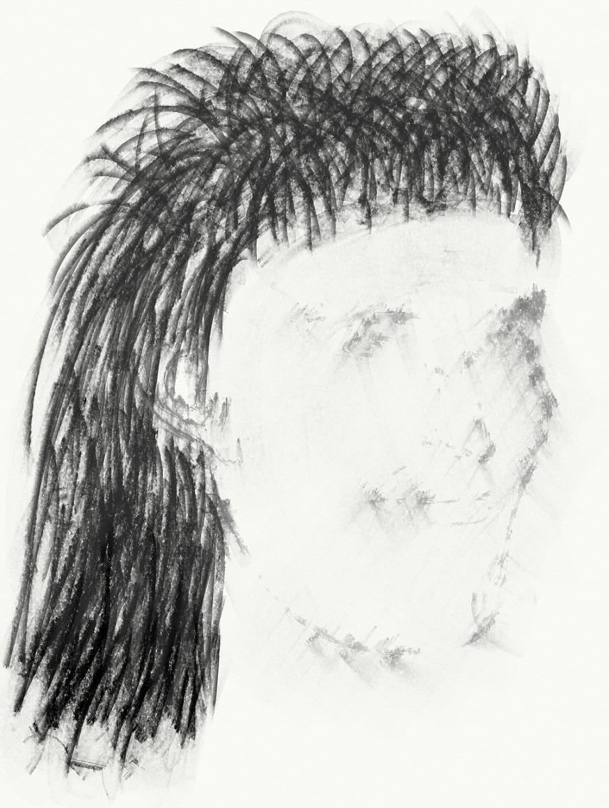 Sketch of a "mullet" haircut